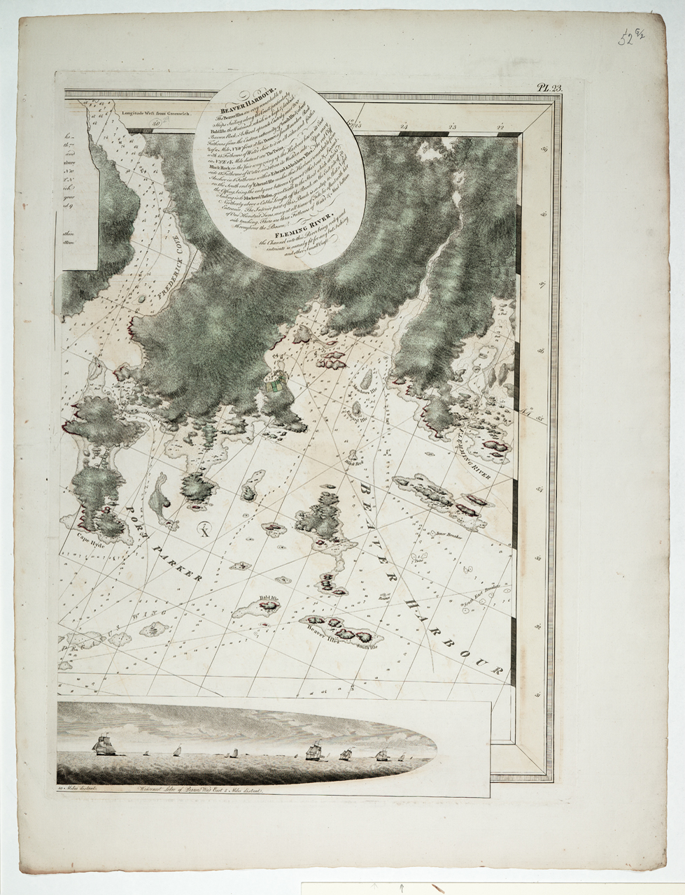 [Spry Harbour to Flemming River]Two sheets. Engraved. Scale: 1:30 000 (bar). Cartographic Note: North at 23 degrees. Variation shown 14 degrees 8' W. There is an error in the longitude graduation on the top margin: 30' should be 29'. Additional Places: Nova Scotia. Contents Note: Text panels contain sailing directions. There is one view. Plate same as 52E. Other features: Printed on two unjoined sheets of Bates paper. Colouring: border yellow, red/brown coastal convention and settlement coloured green and yellow. HNS 52G [Spry Harbour to Flemming River]